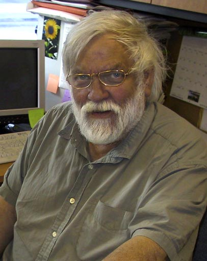 Paul George, Canadian environmentalist. Shown here working in the Green Party of British Columbia office in Gibsons, B.C. during his wife Adriane Carr's election campaign. May 11, 2005. Photo by Grant Neufeld.